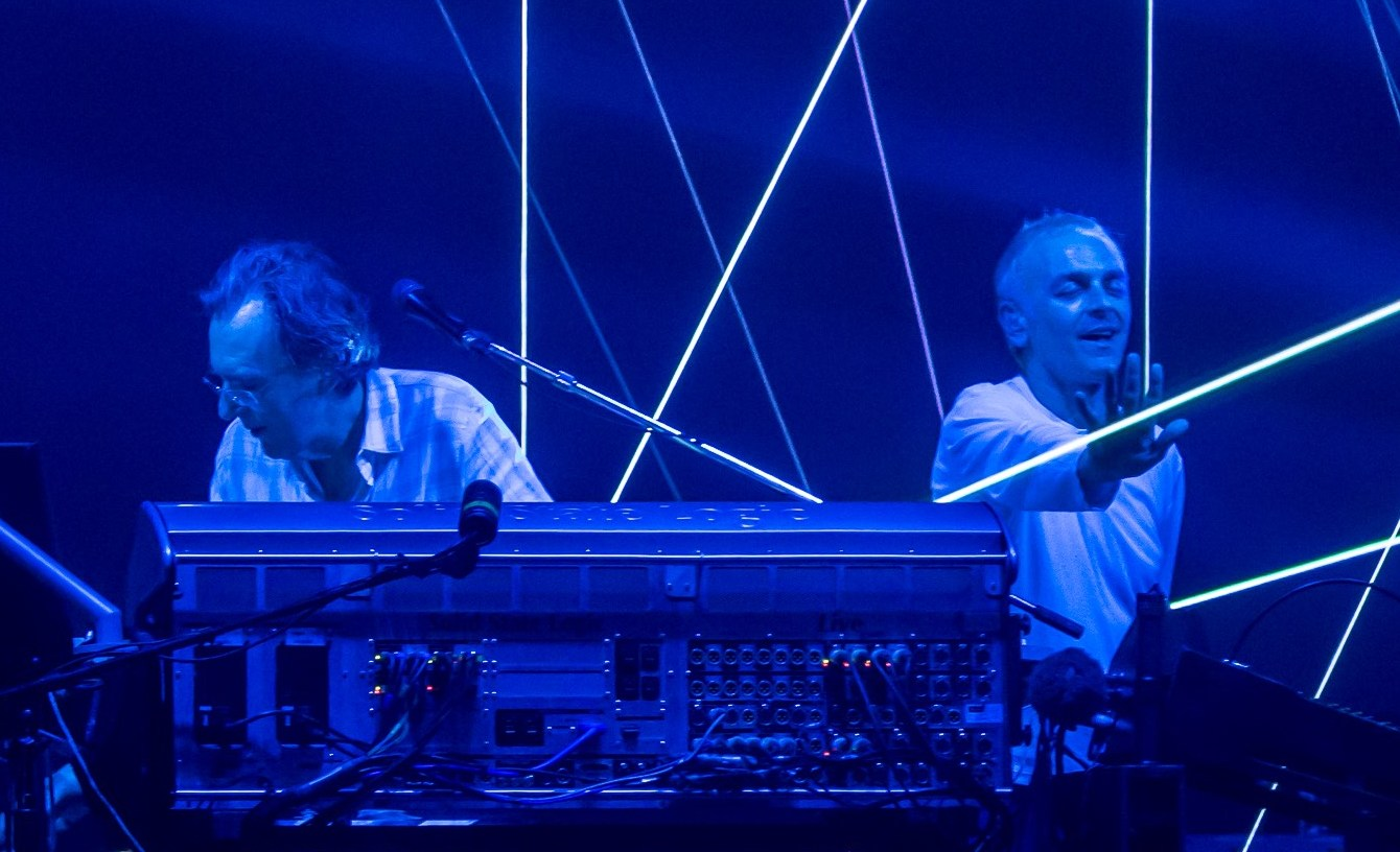 Underworld, Live at Alexandra Palace, London (March 2017)